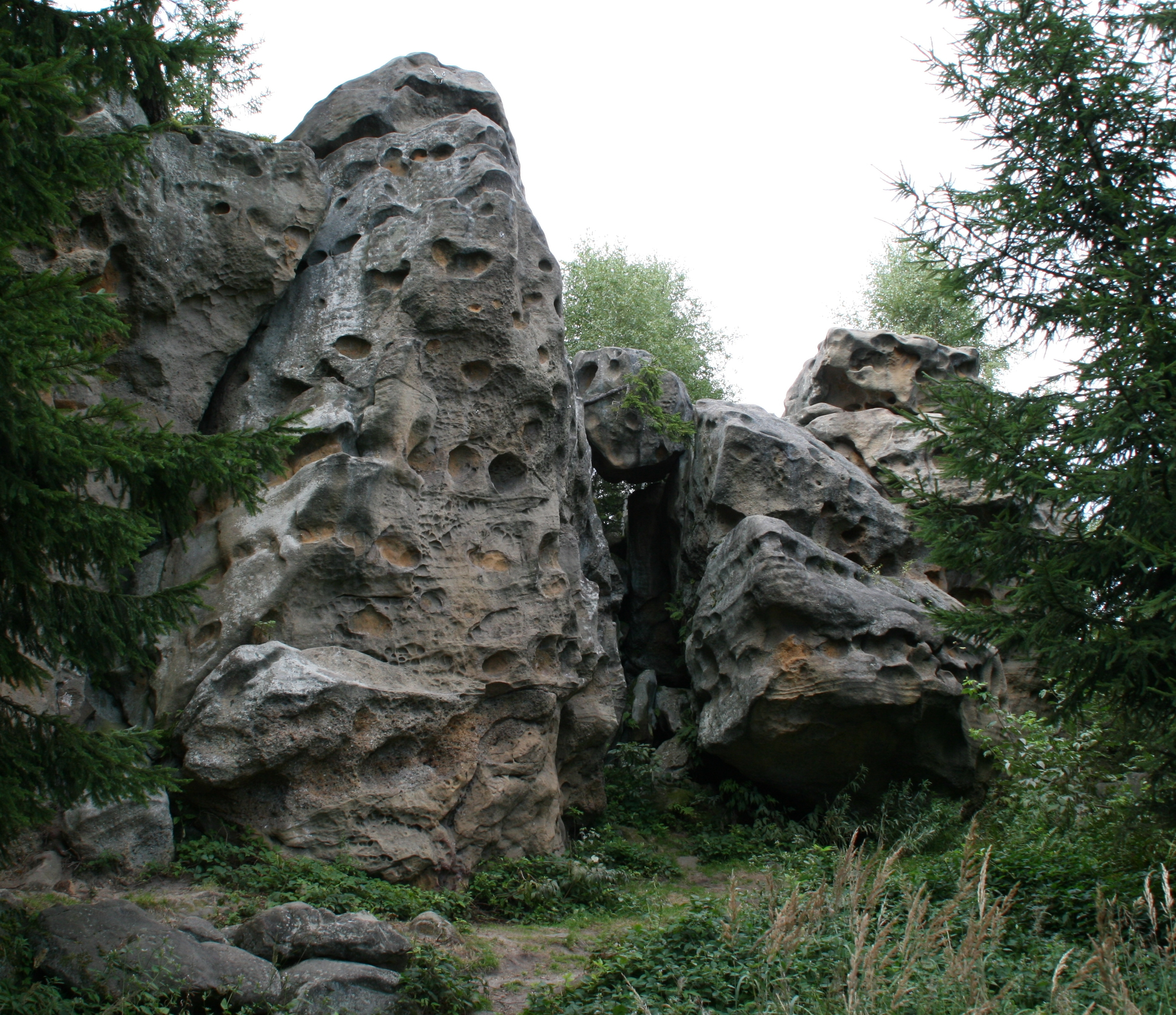 "Upper Lačnov´s rocks", Vsetín District, Zlín Region, Czech Republic